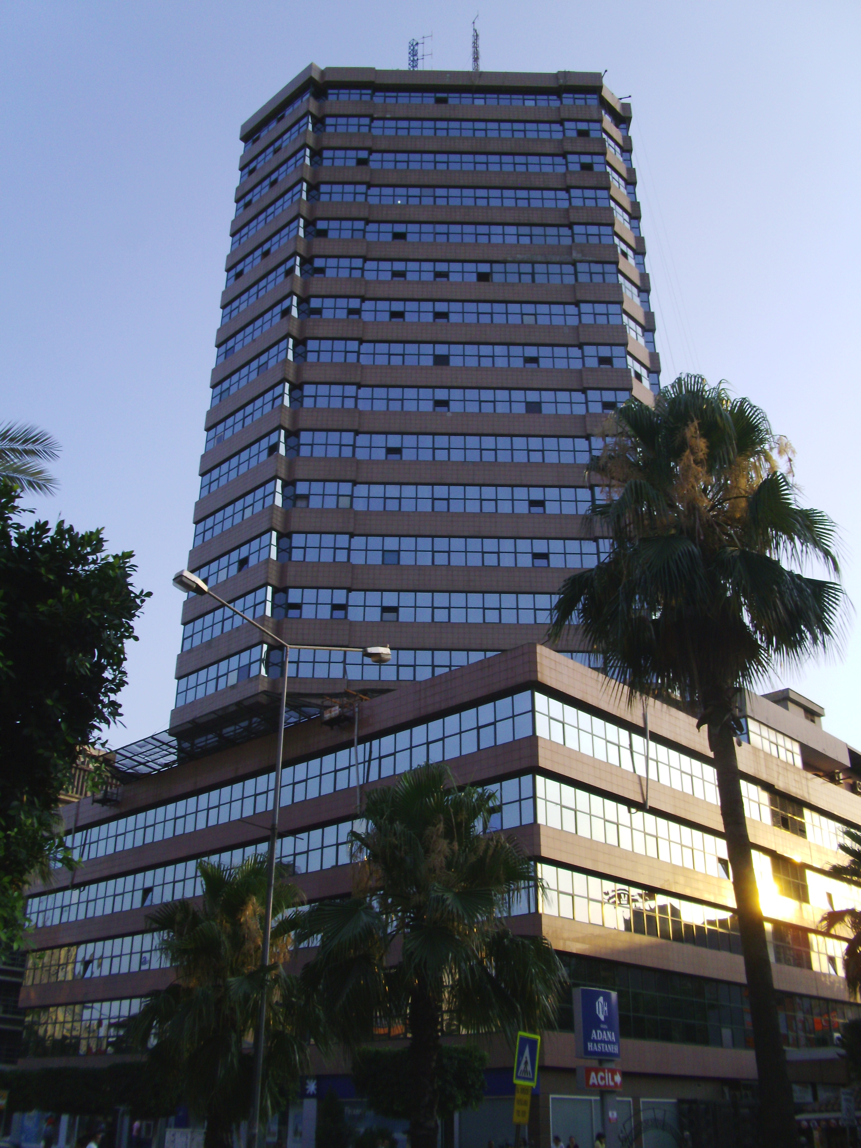 from Atatürk Street